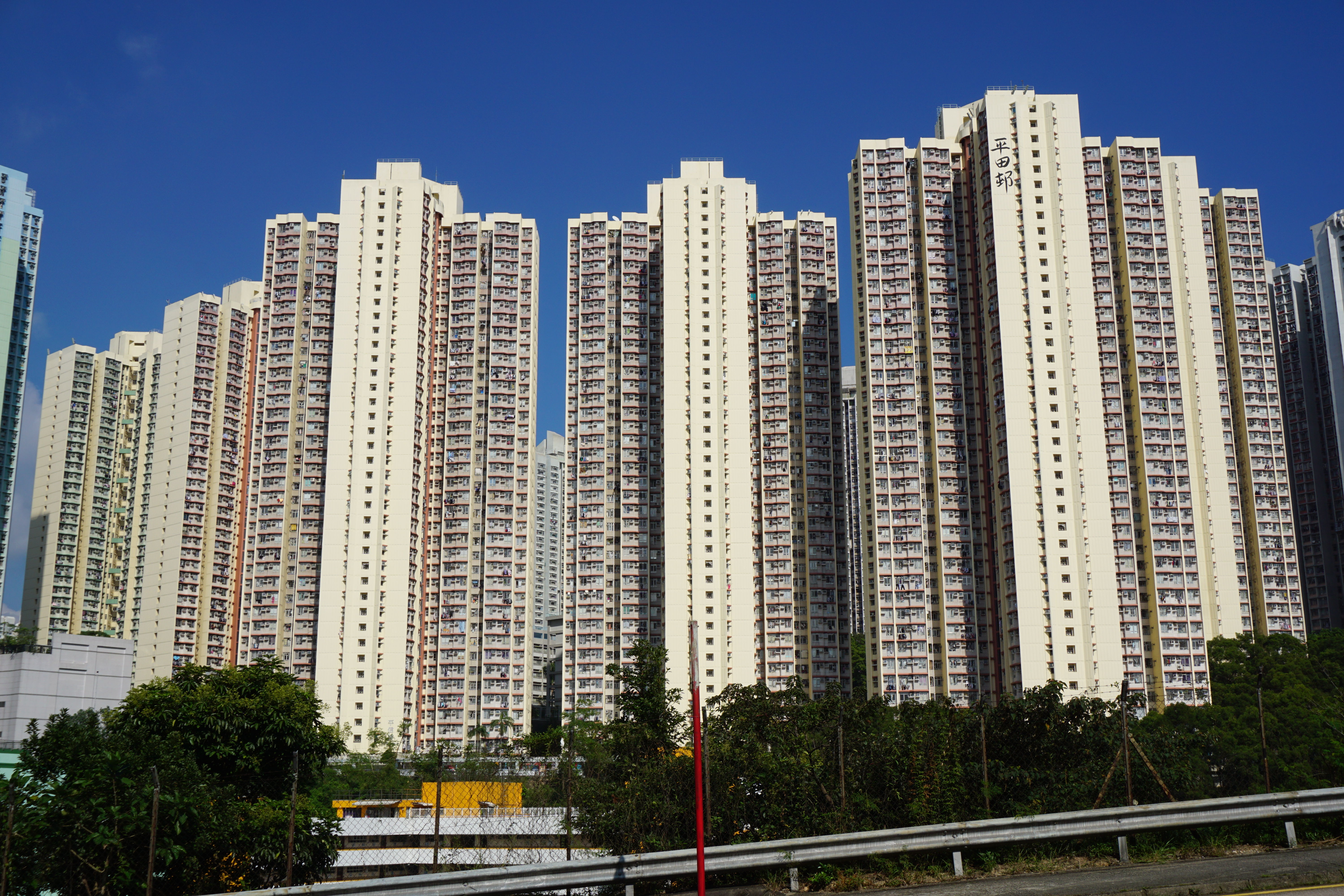 Ping Tin Estate in Lam Tin, Hong Kong.